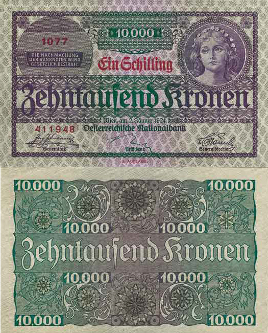 1 Schilling banknote, issued 11.05.1925